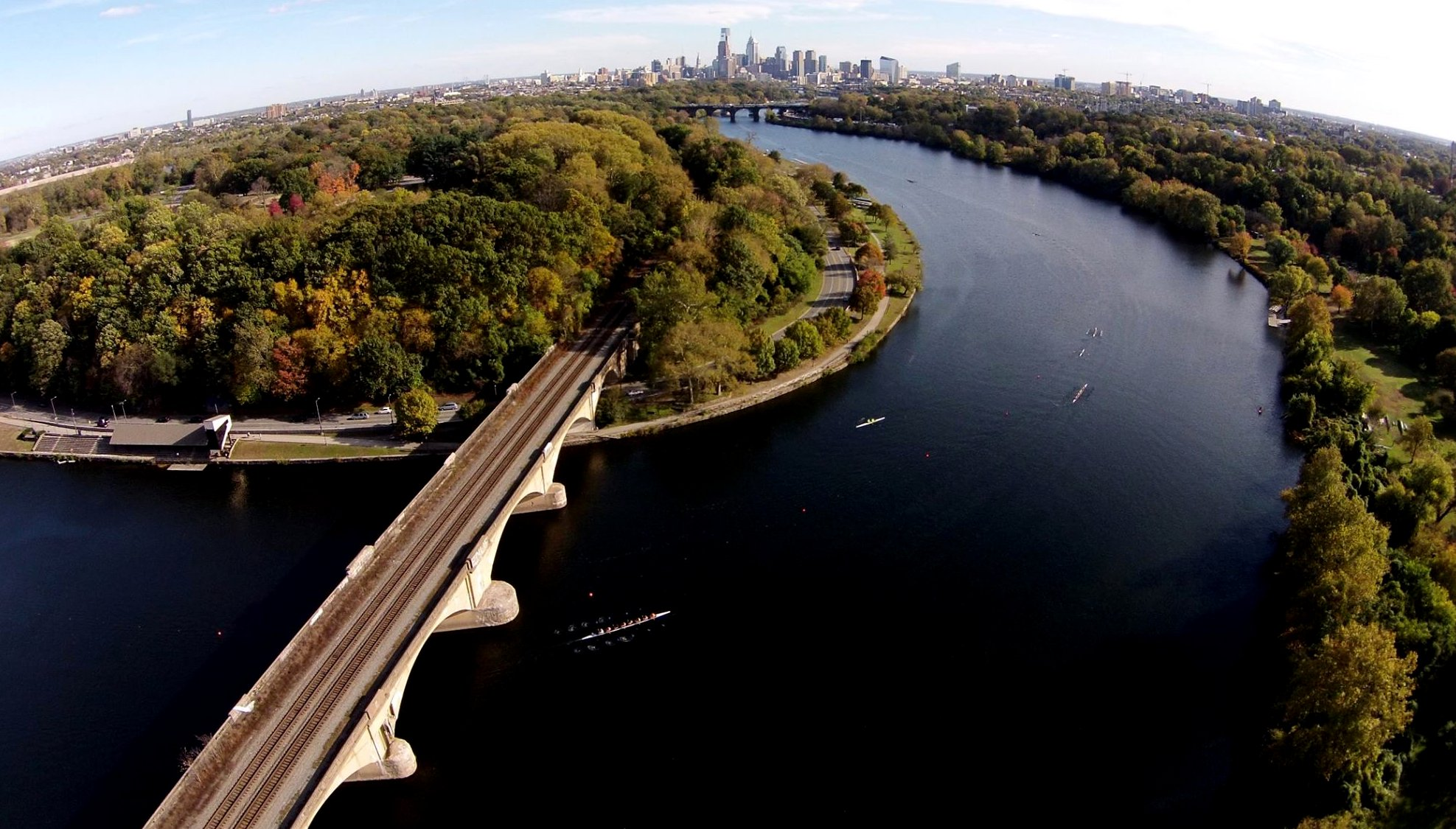 Columbia Railroad Bridge from above